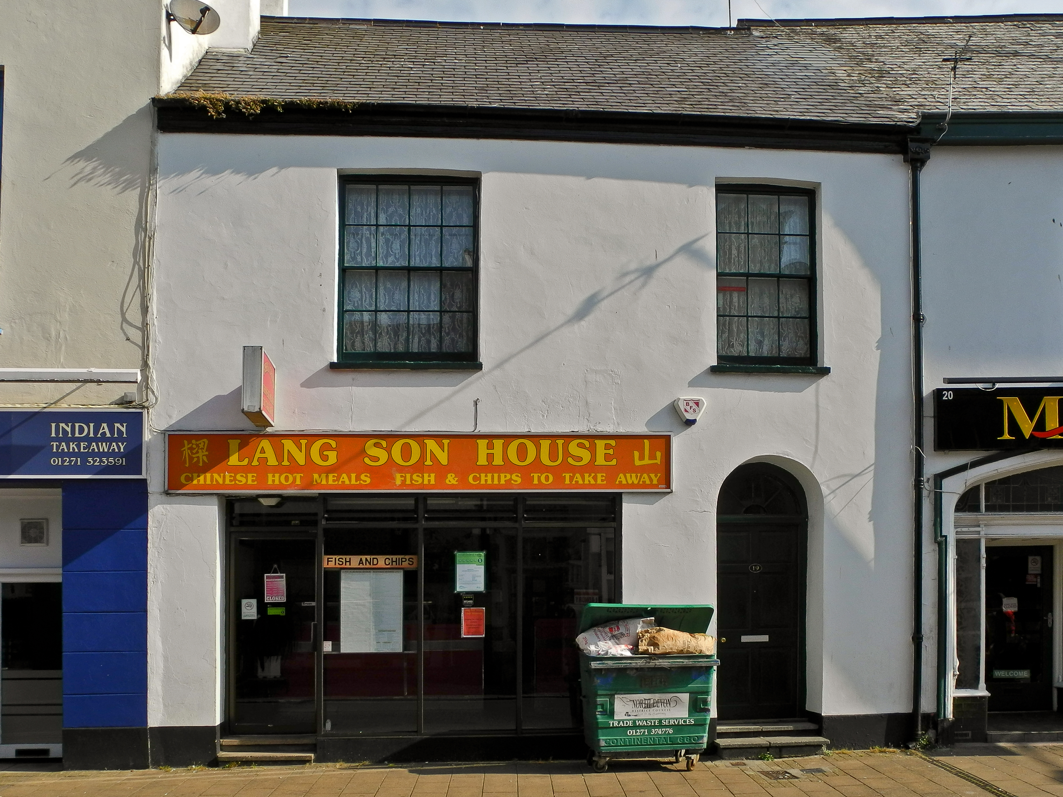 19 Bear Street, Lang Son House, Barnstaple